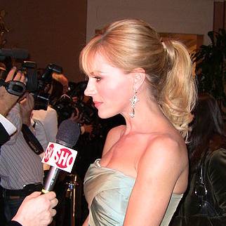 Julie Benz at the Showtime Golden Globes Party, The Peninsula Hotel, Beverly Hills, Calif. - Jan. 11, 2009